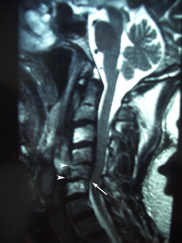 MRI scan revealed a reduction of the disc height at C4-5 and C5-6 (arrow heads), a loss of height of the C5 vertebral body and retrolisthesis of C5 on C6 (arrow).